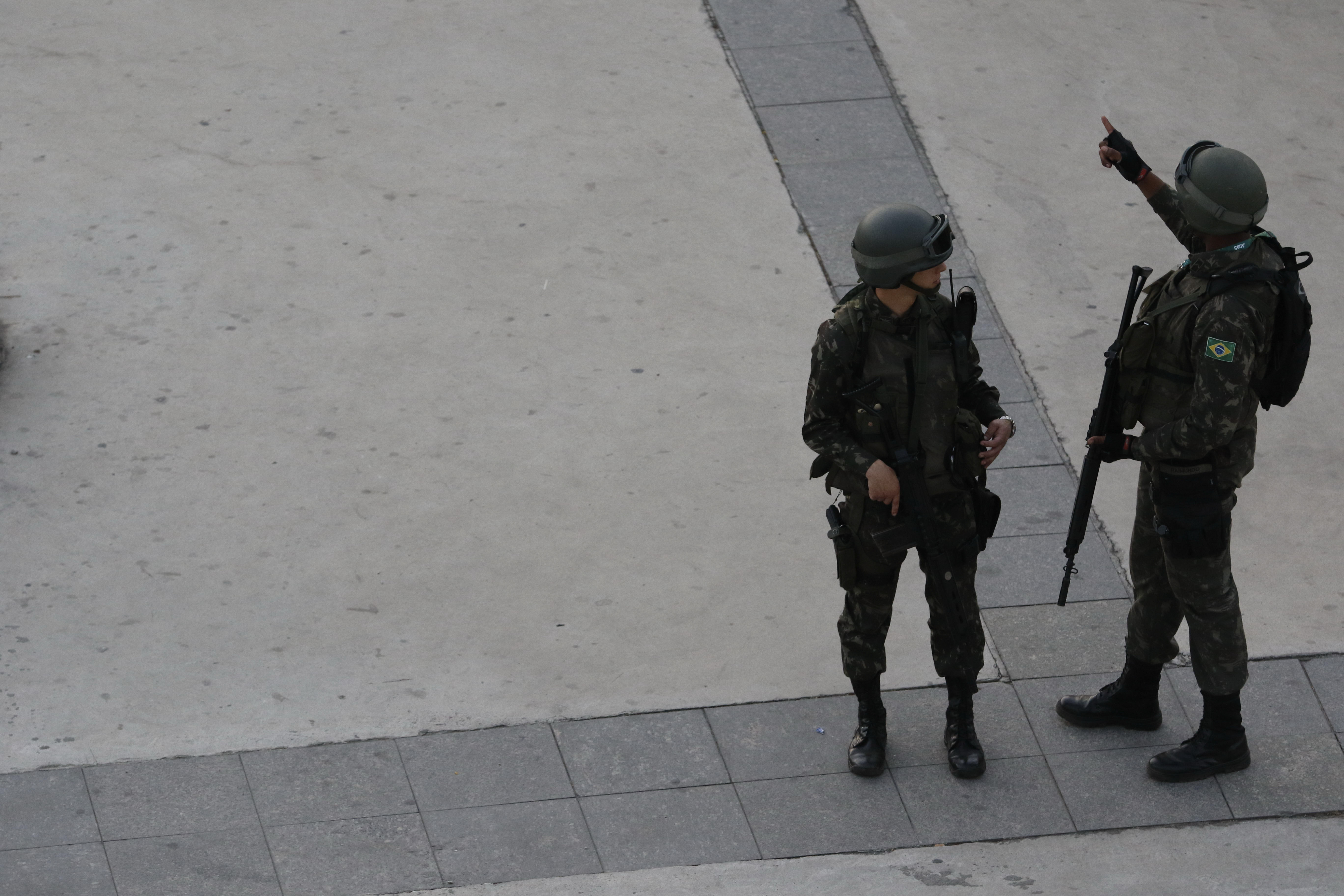 Rio de Janeiro - Segurança para cerimônia de abertura dos Jogos Olímpicos Rio 2016 no Estádio do Maracanã (Fernando Frazão/Agência Brasil)